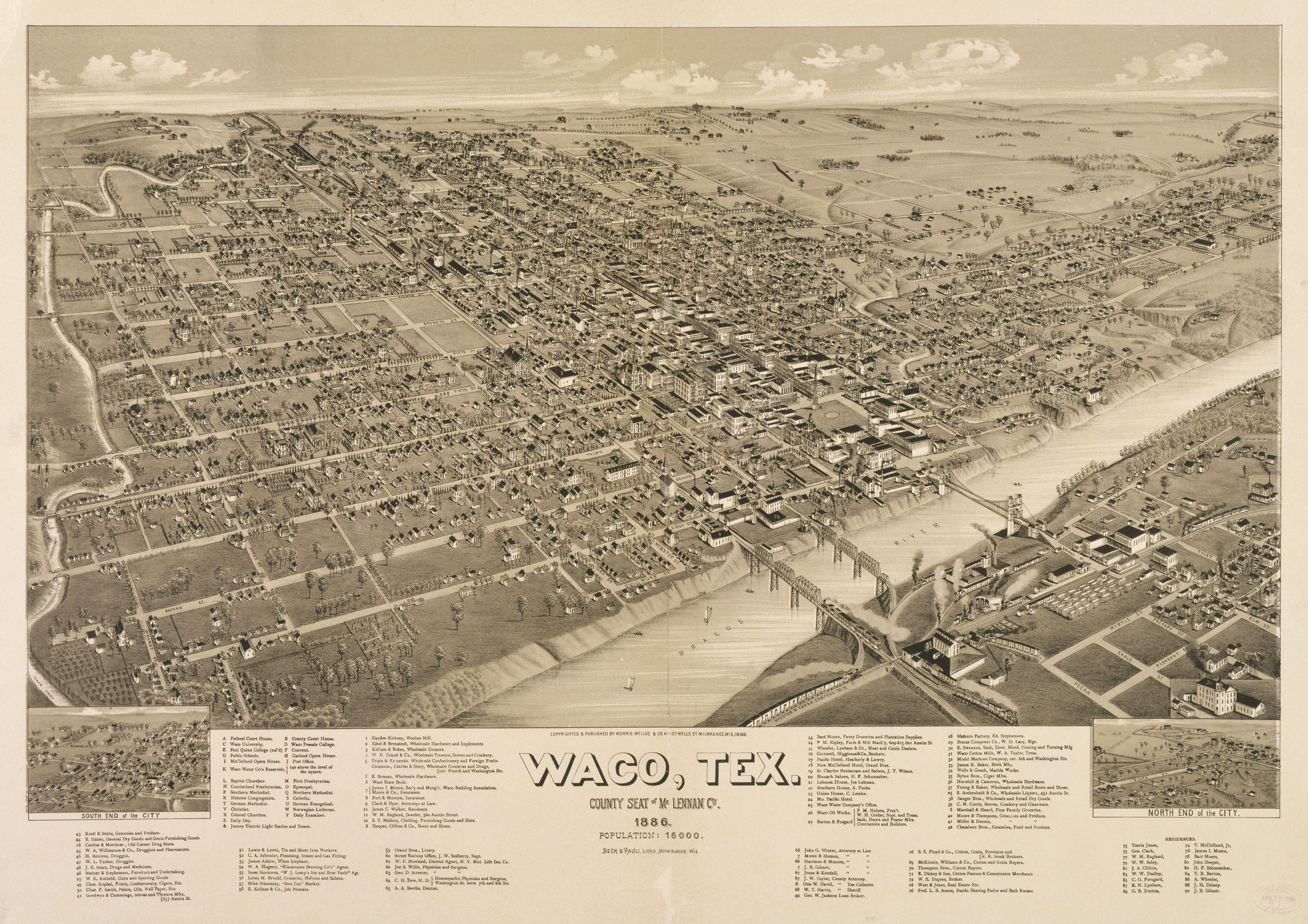 Waco, Texas in 1886. Waco, Tex. County Seat of McLennan Cty. 1886. Population: 16000, 1886. Lithograph, 18.9 x 30.7 in., by Beck & Pauli, Litho. Milwaukee, Wis. Published by Norris, Wellge and Co. Amon Carter Museum, Fort Worth.